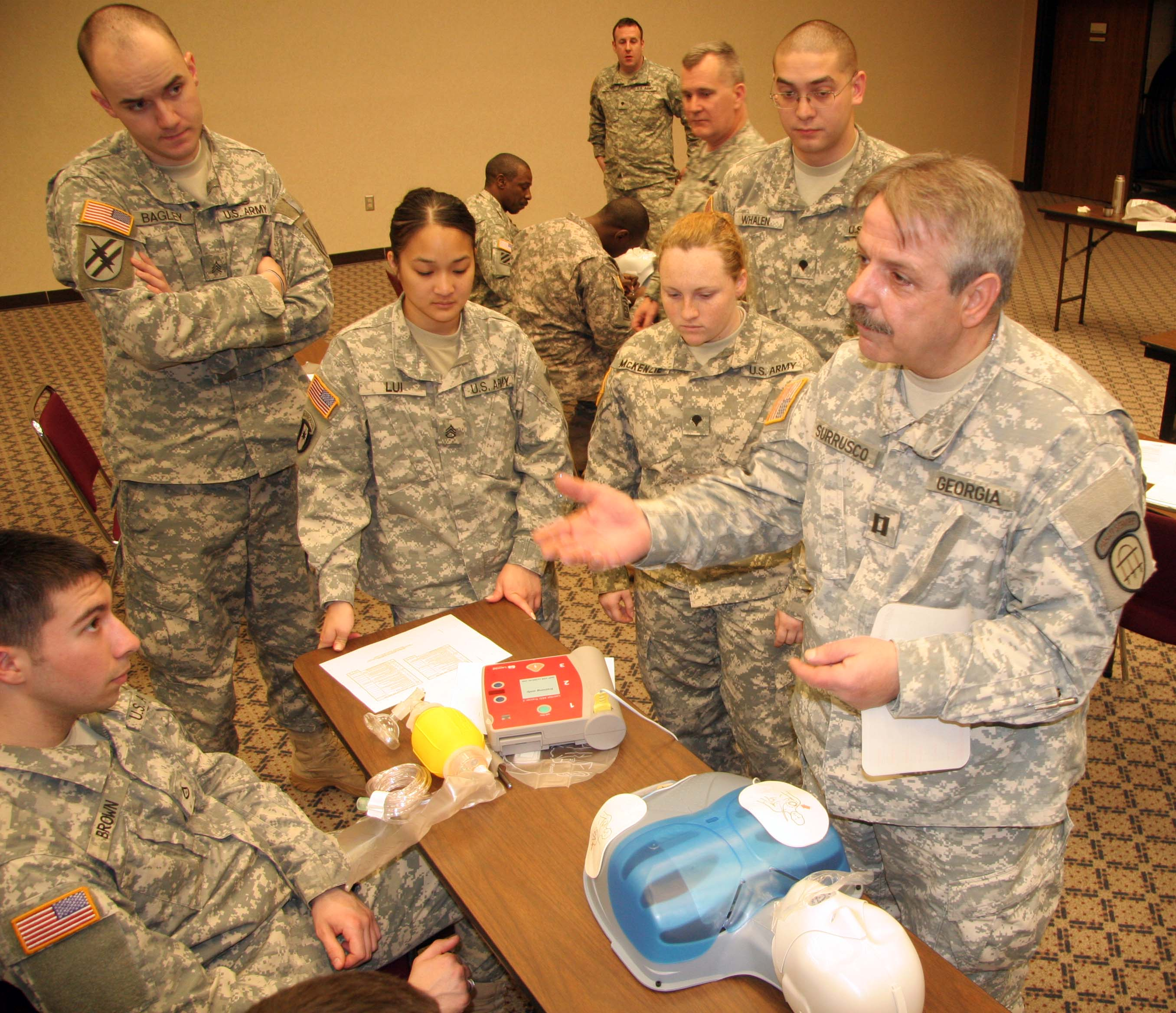 Capt. Bob Surrusco, executive officer of the GSDF 5th Brigade, of Forsyth, Ga., provides training in CPR/AED to medics in the Infantry Brigade Combat Team (IBCT) of the Georgia Army National Guard.